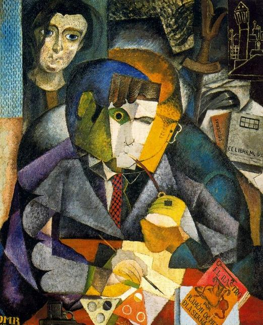 Cubist portrait of Spanish writer Ramón Gómez De la Sena by Mexican painter Diego Rivera